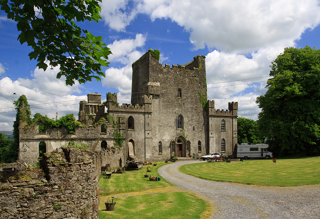 Castles of Leinster: Leap, Offaly